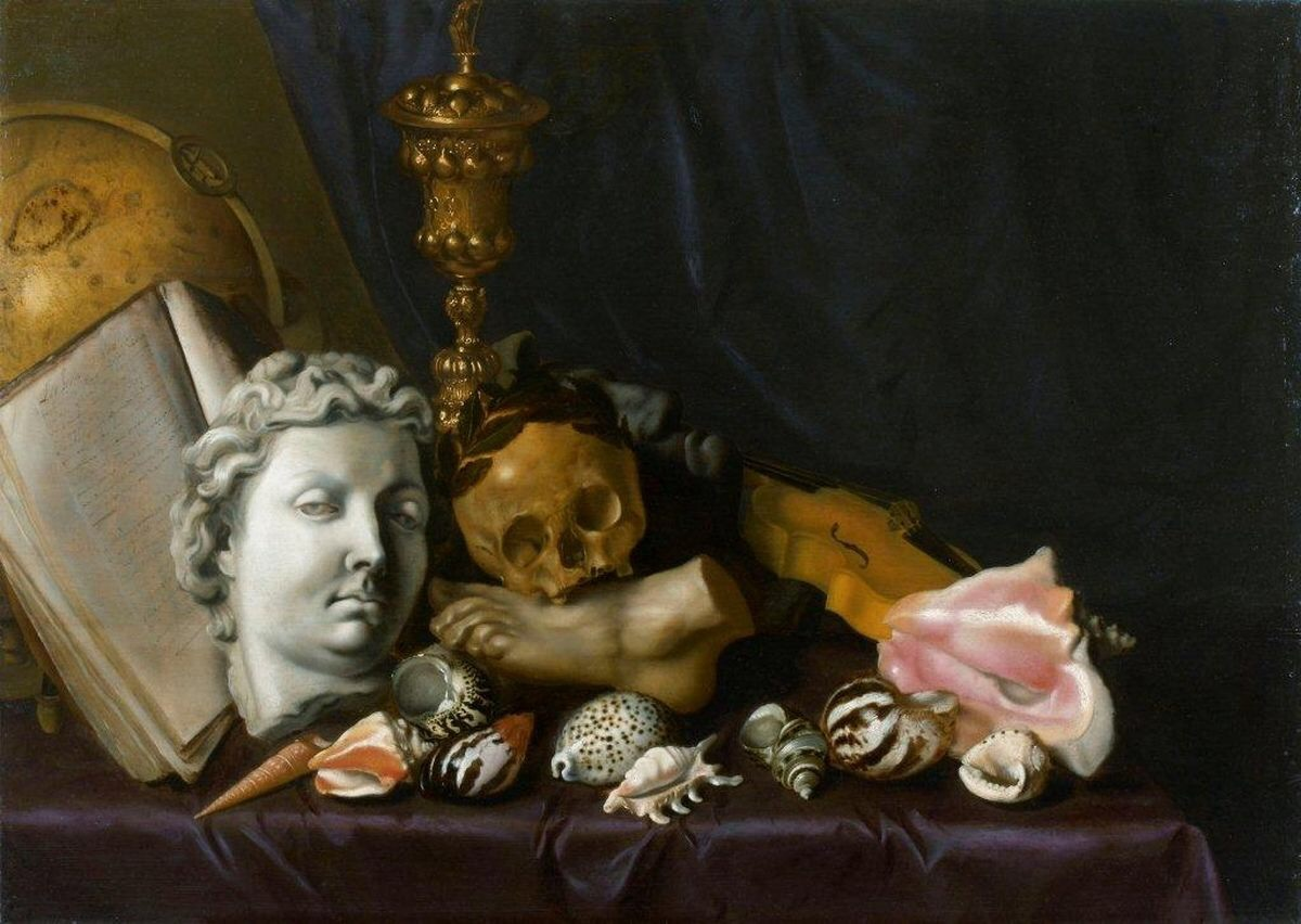 Vanitasstilleven